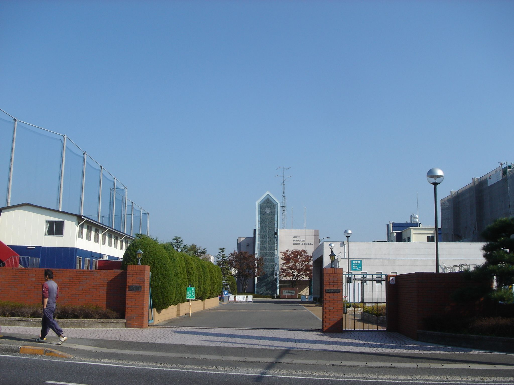 Gifu Dai-Ichi High School in Motosu city